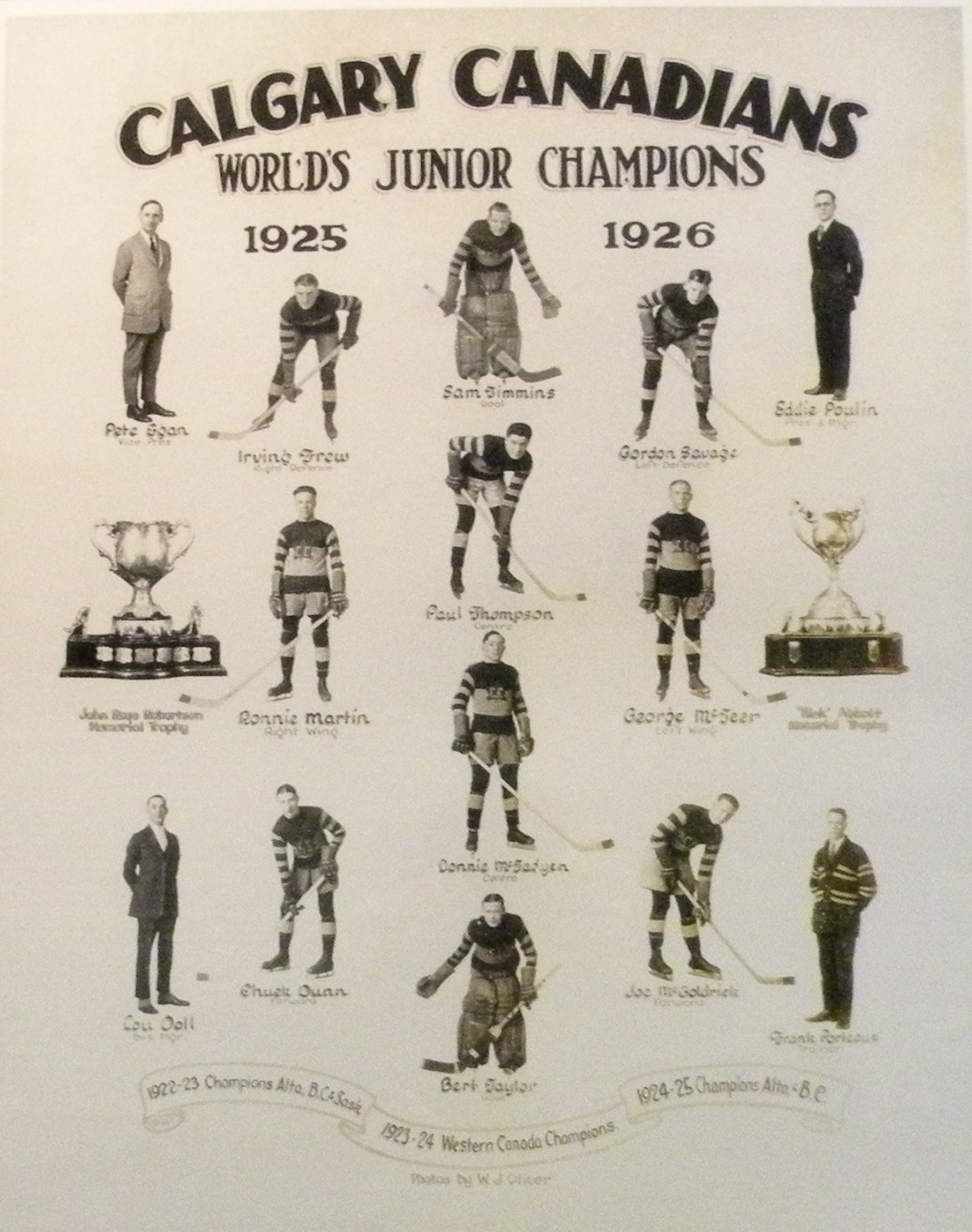 Cropped image of a photograph of the 1925–26 Calgary Canadians junior ice hockey club on display as part of a permanent photo journal at the Pengrowth Saddledome in Calgary.